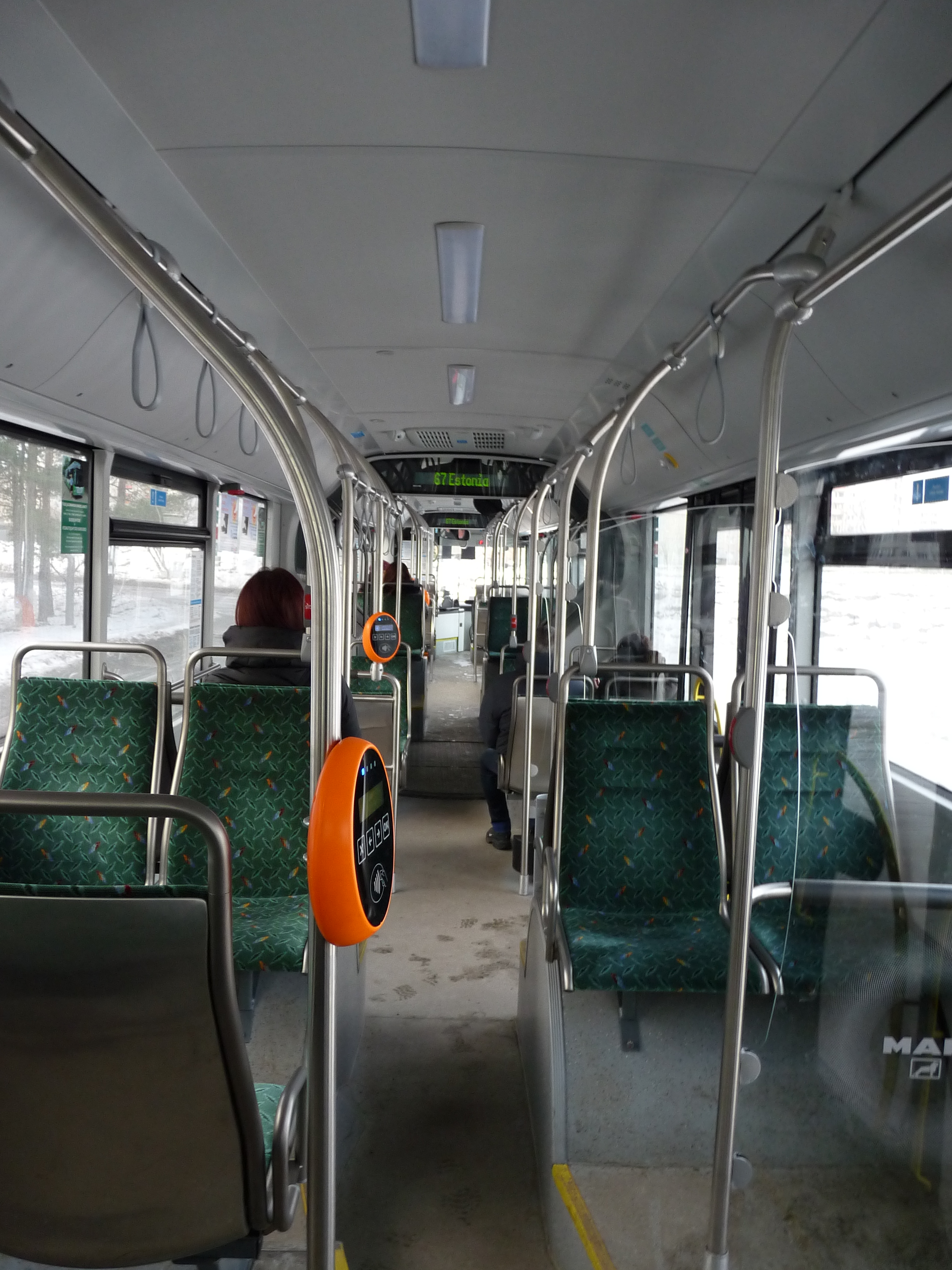 Interior of MAN public bus in Tallinn, Estonia